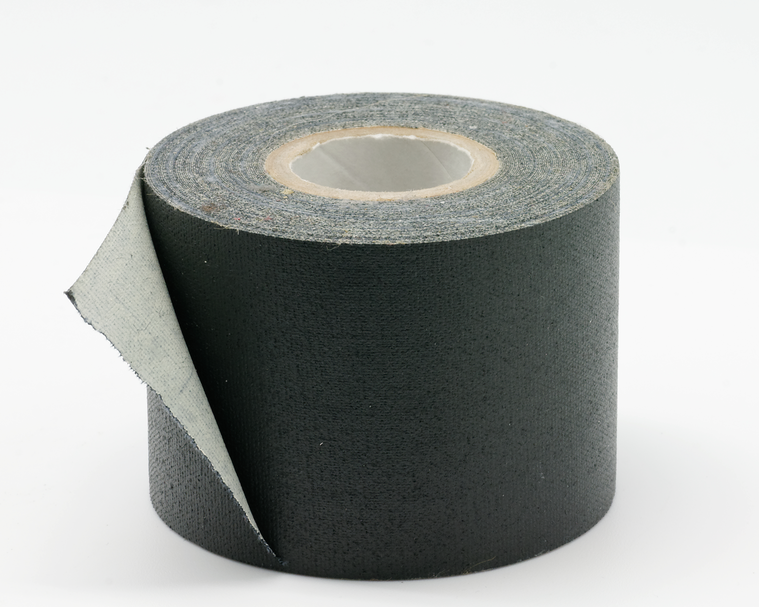 A roll of black gaffer tape.